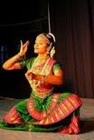 Kuchipudi Dance Performance by V Anjana Devi at ravindra bharathi hyderabad, This Picture is My Own Work and i give permission to use this Image for Non Commercial Purpus